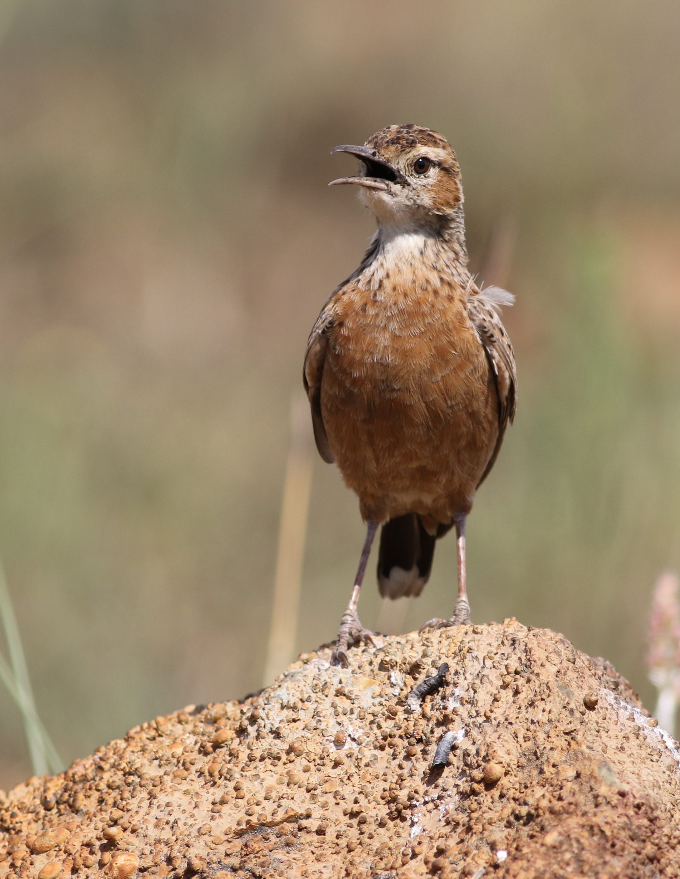 Spike-heeled lark, Chersomanes albofasciata, at Suikerbosrand Nature Reserve, Gauteng, South Africa